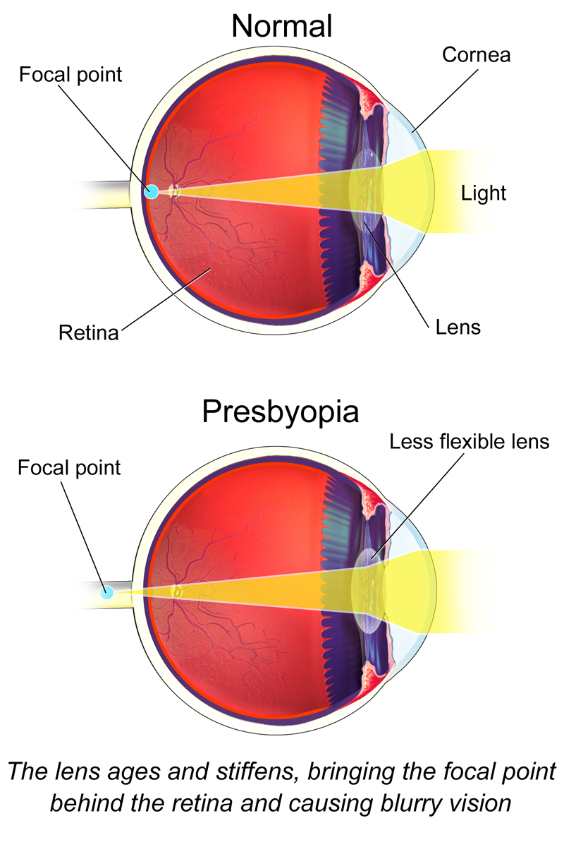 Presbyopia. See a full animation of this medical topic